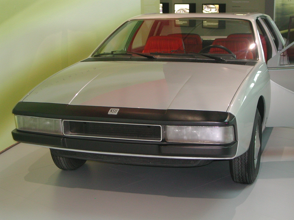 NSU Ro80 2Porte+2 Pininfarina